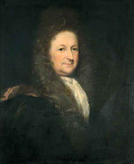 Portrait of Sir Richard Levett (d. 1711), Lord Mayor of the City of London (1699). Oil on canvas by Godfried Schalcken. 76 cm x 64 cm. Courtesy of the collection of the City of London Corporation.